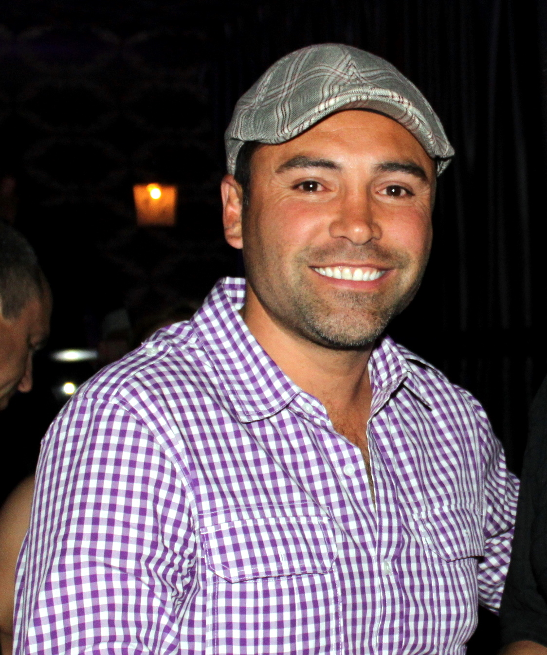 Oscar De La Hoya at Fight Night Club event at the Club Nokia in Los Angeles, California, United States.